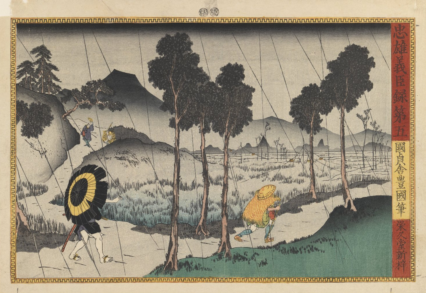 Utagawa Kunisada I, here signing with 'Kunisada toneri Toyokuni hitsu'; publisher: Yamamotoya Heikichi; censor seals: Muramatsu and Yoshimura